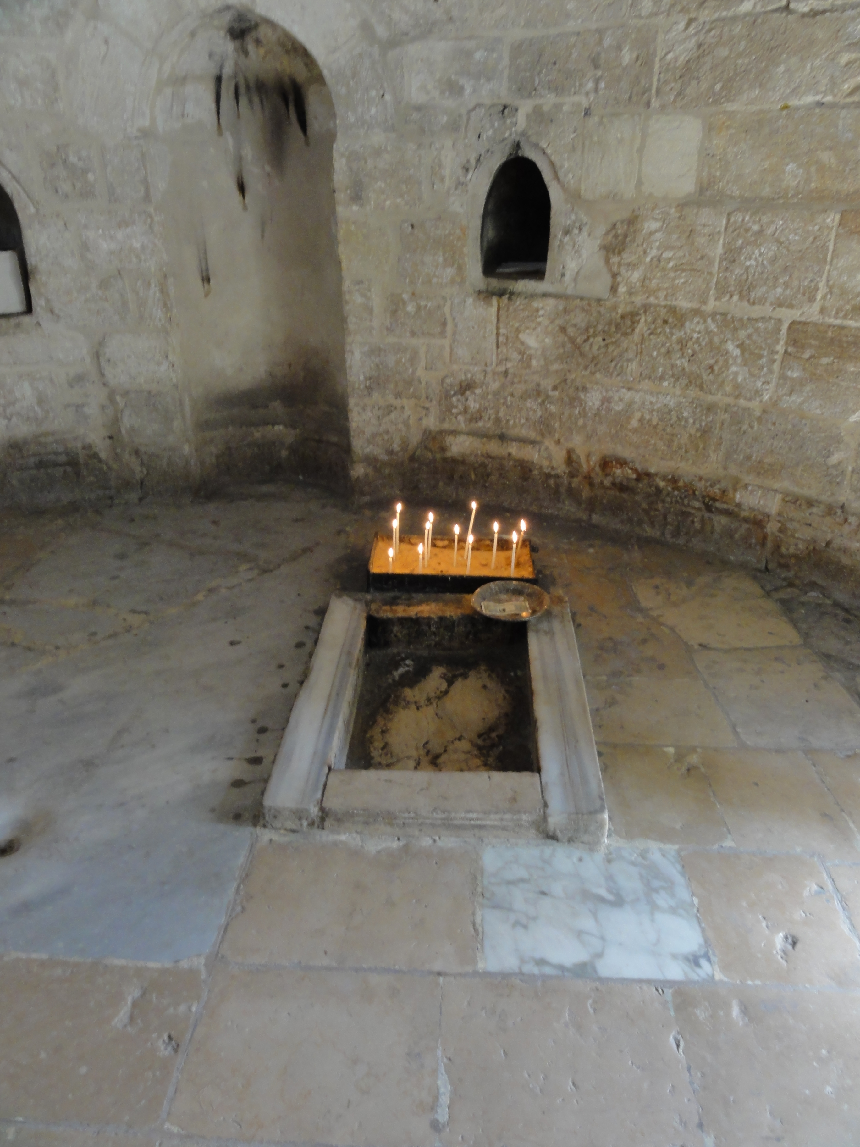 Chapel of the Ascension, inside